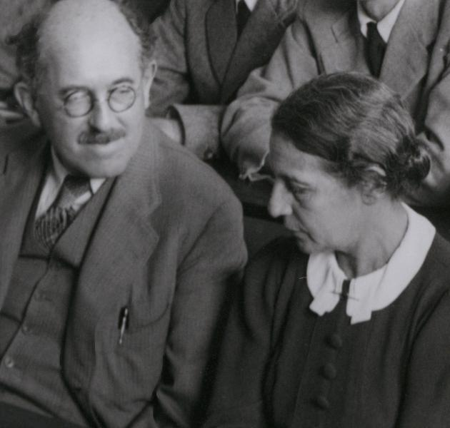 Otto Stern and Lise Meitner, probable 1937 on the occasion of an colloquy with Nobel Price winners.